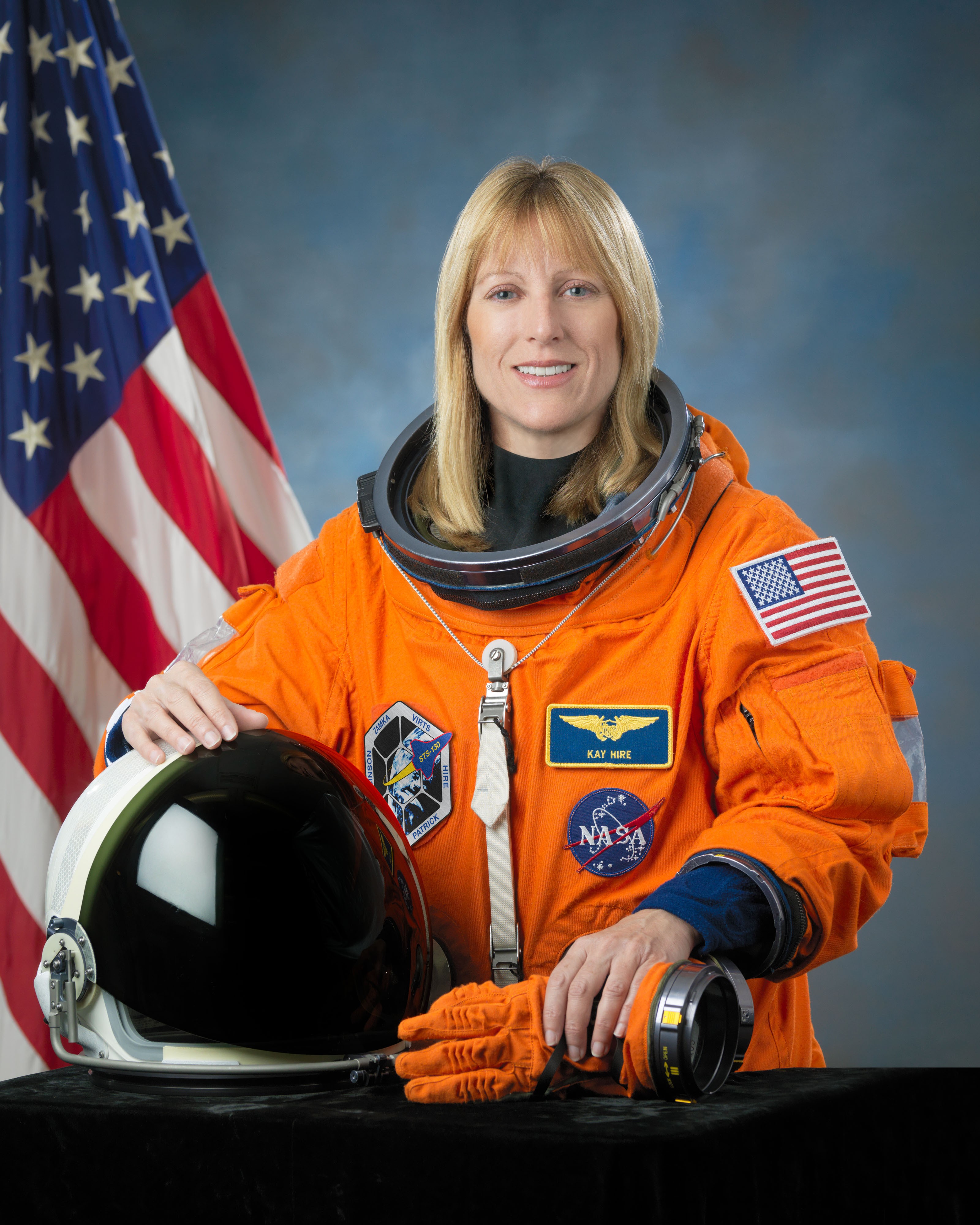 Astronaut Kathryn P. (Kay) Hire, mission specialist